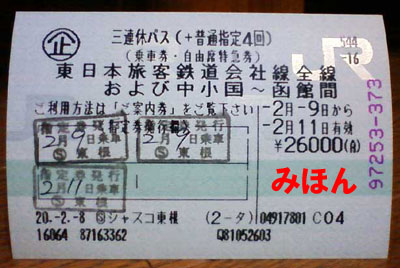 三連休パス 本券（使用済み）Japanese Train Ticket (Sanrenkyu-pass Ticket)